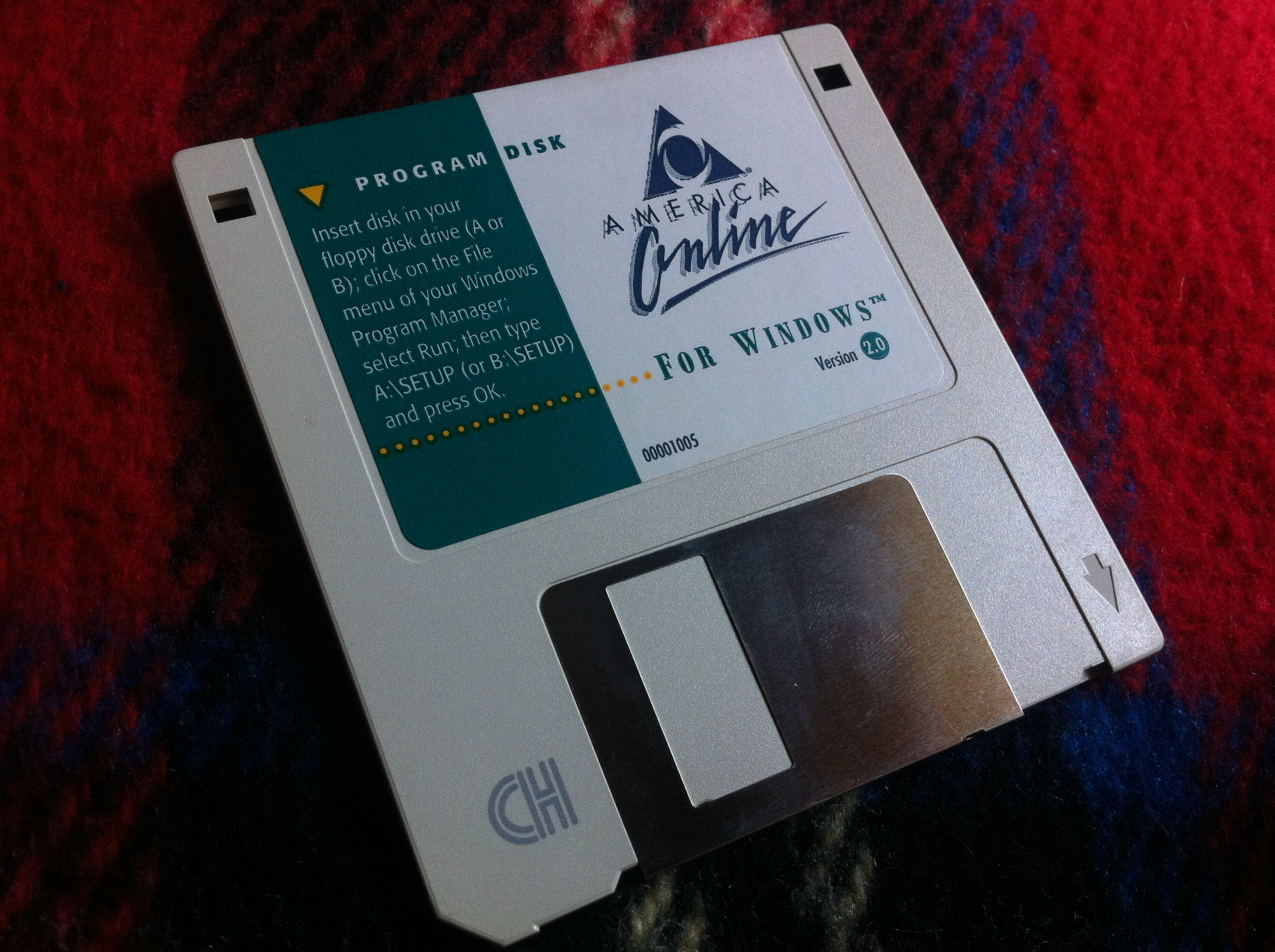 America Online version 2.0 program disk for Windows